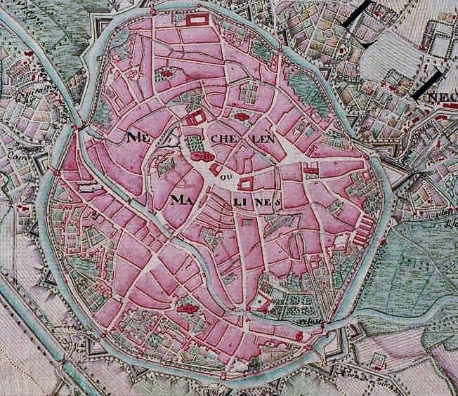 Mechelen,_Belgium_;_ detail from Ferraris_Map